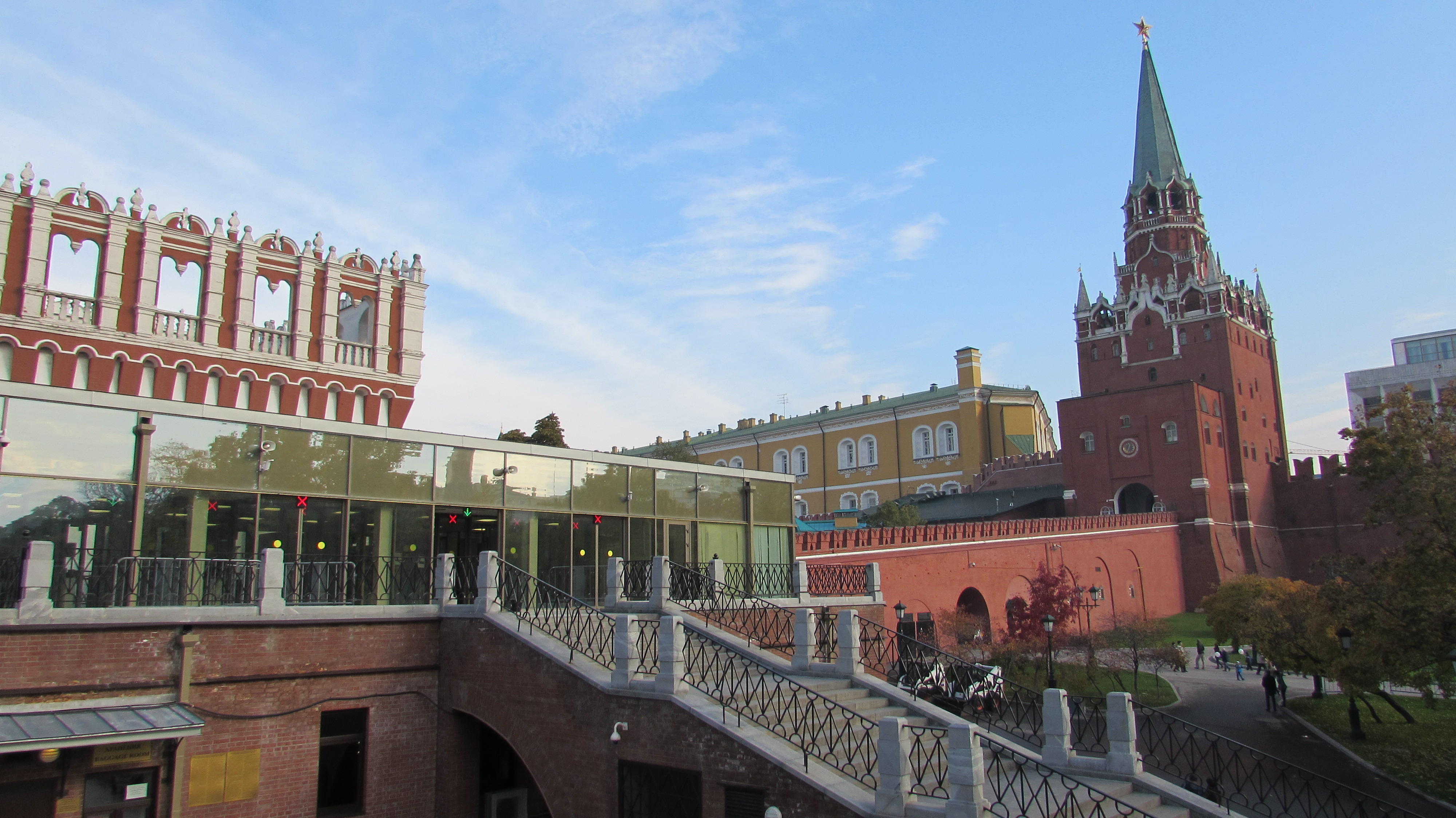 Public entrance to Moscow Kremlin via the Troitsky Bridge